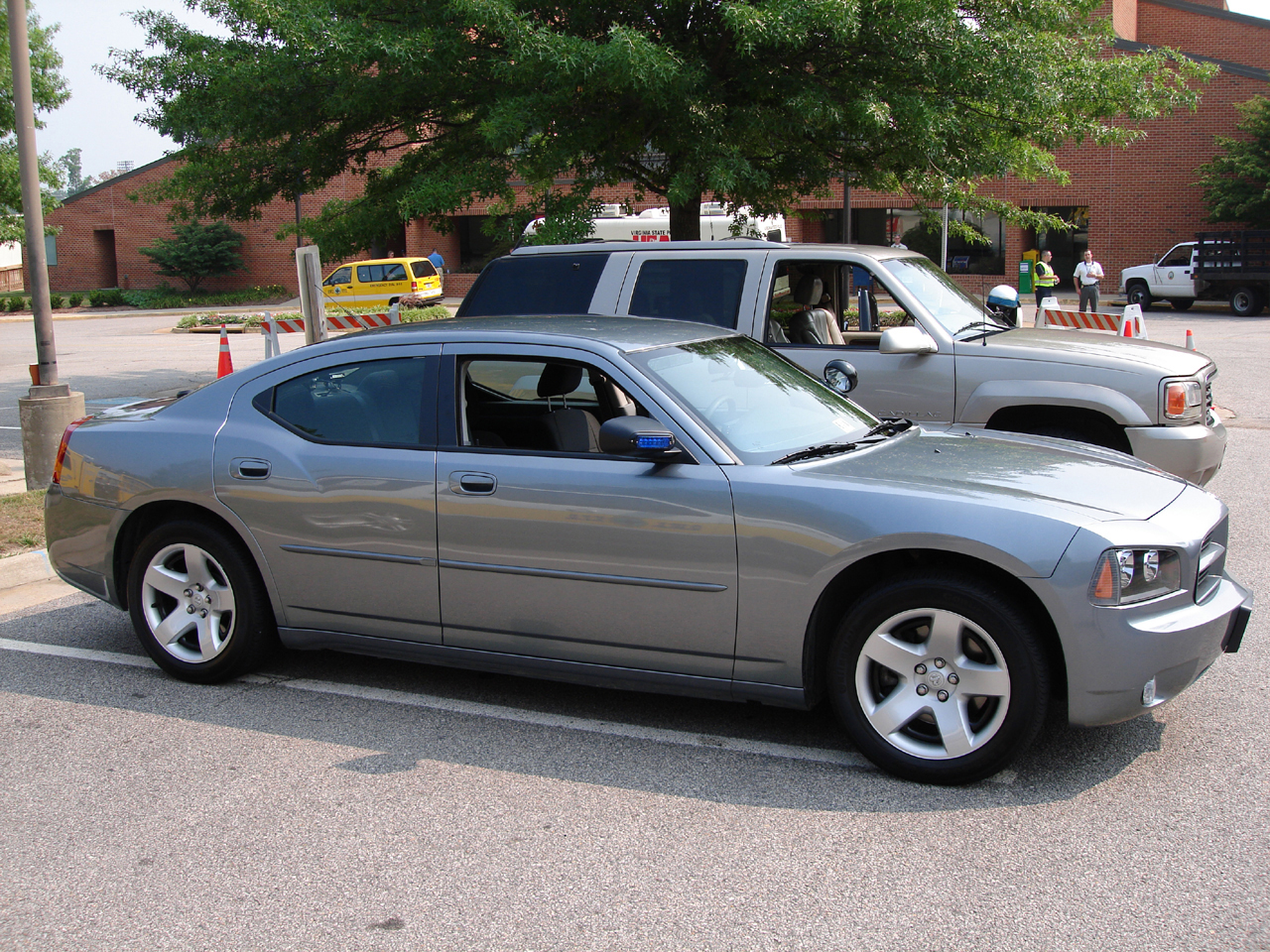 I own this picture